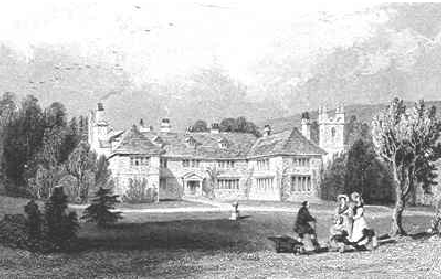 "Morvall, Cornwall, the seat of John Buller Esq." Engraving by William Alexander le Petit (fl.1829-1855) from an original painting by Thomas Allom (1804-1872) published in "Cornwall Illustrated" (1832) by Fisher, Son & Co., London (From catalogue description by Ash Rare Books, 43 Huron Road, London SW17 8RE)